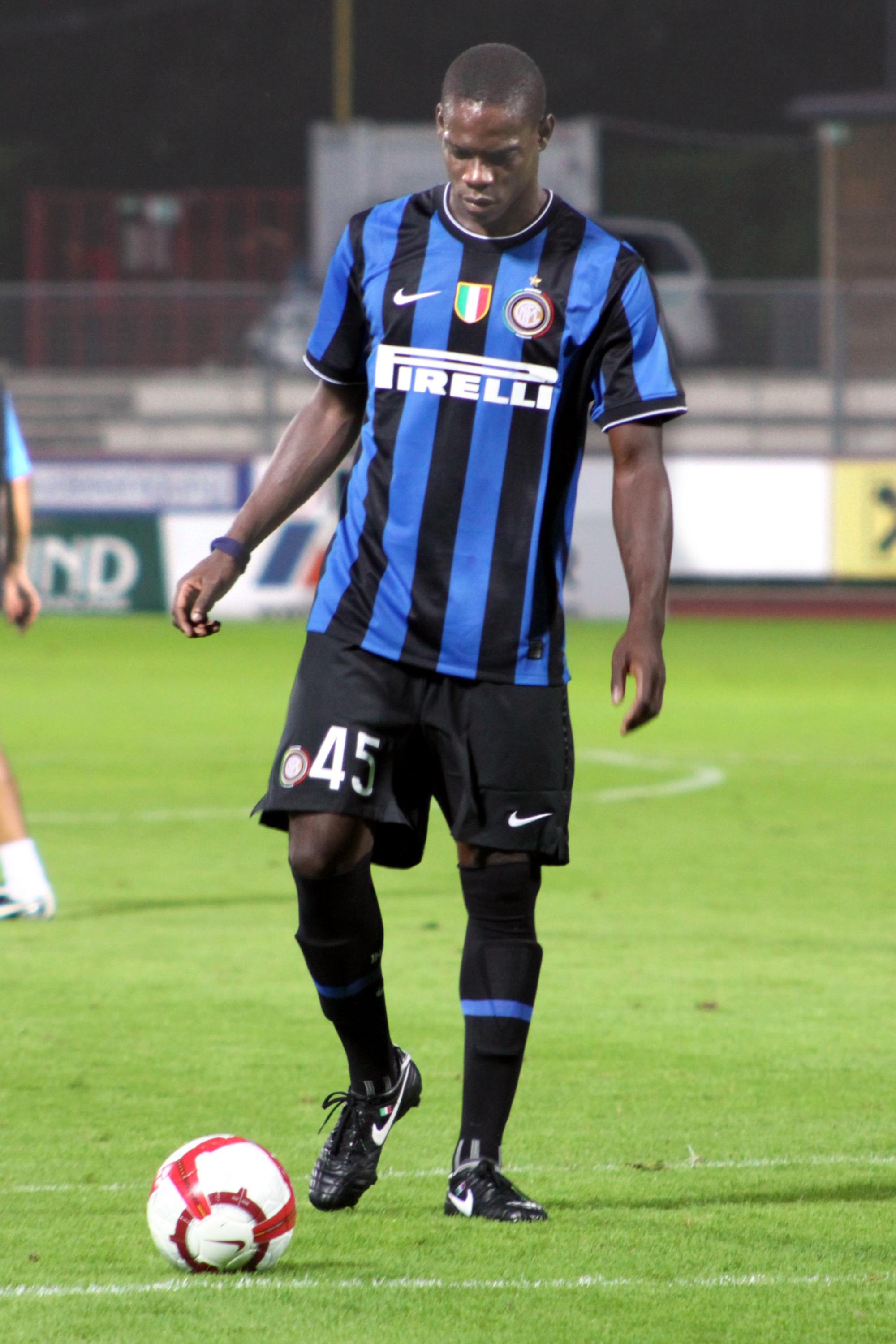 Mario Balotelli - F.C. Internazionale Milano